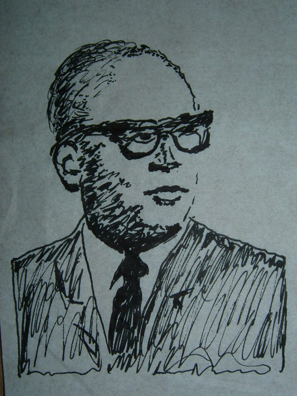 Jan Jargon